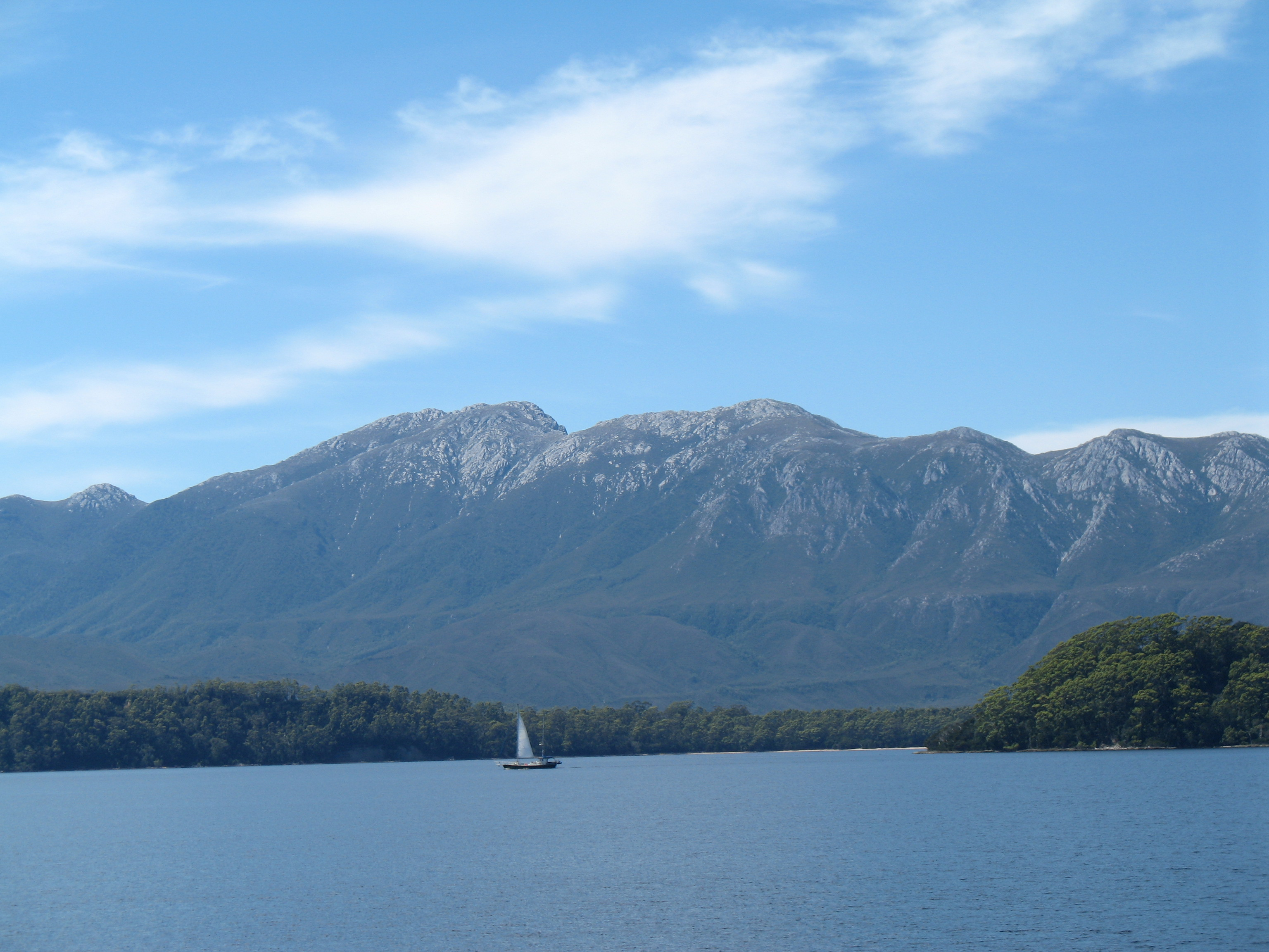 A view of Mount Sorell in the West Coast Range, east of Macquarie Harbour (Tasmania, Australia) as taken from a boat in the harbour.